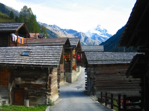 Main street of Ayer, seeing direction to Besso